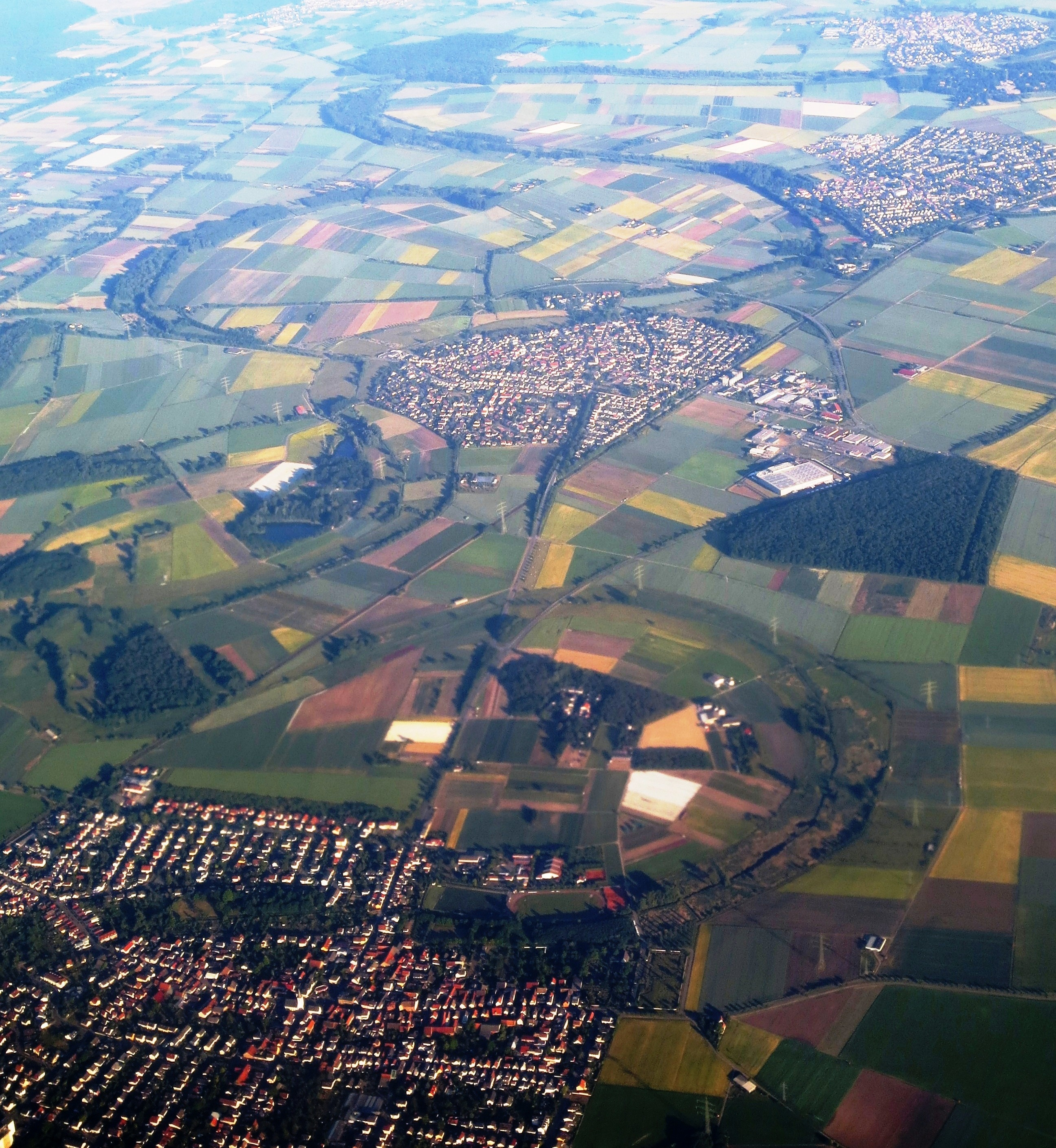 Image of Wolfskehlen, in the center of the image, seen from the north towards South. In the lower front edge of the image is a part of Dornheim.